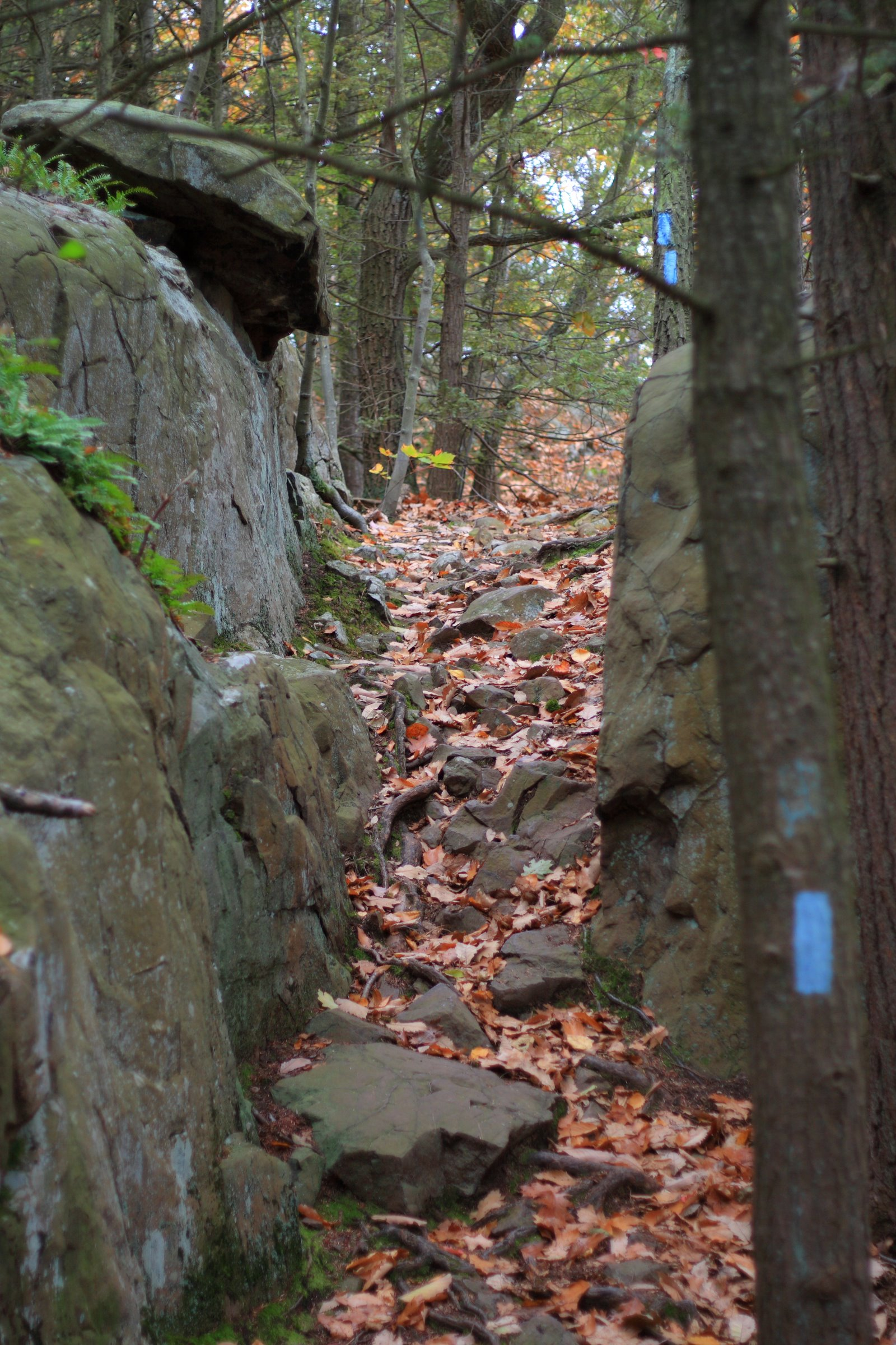 The Metacomet Trail in Connecticut, near Rattlesnake Mountain south of Route 6 in Farmington.